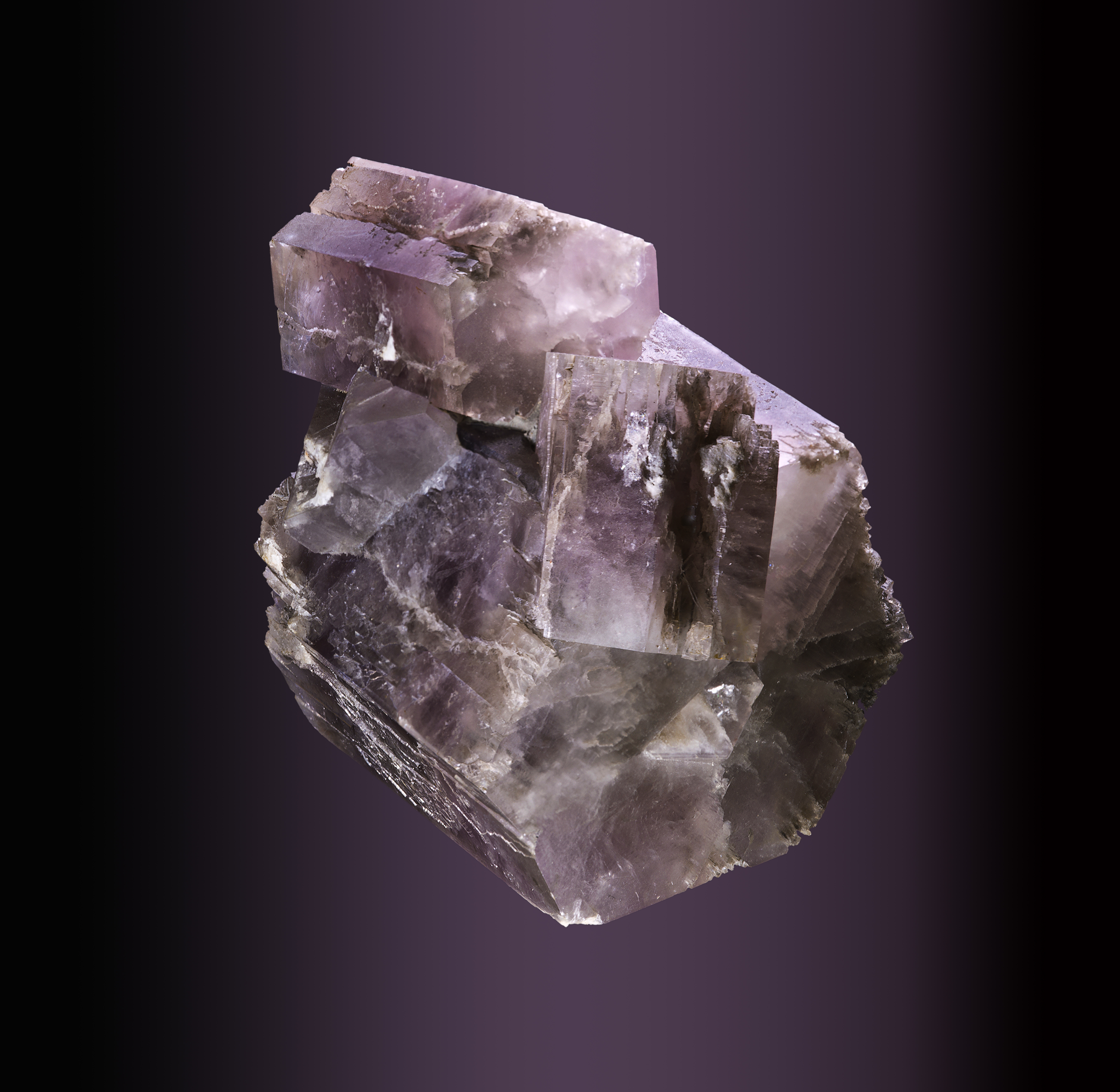 Aragonite locality : Retamal ravine, Enguidanos, Cuenca, Castile-La Mancha, Spain Size 7.6 x 6.1 x 5.7 cm